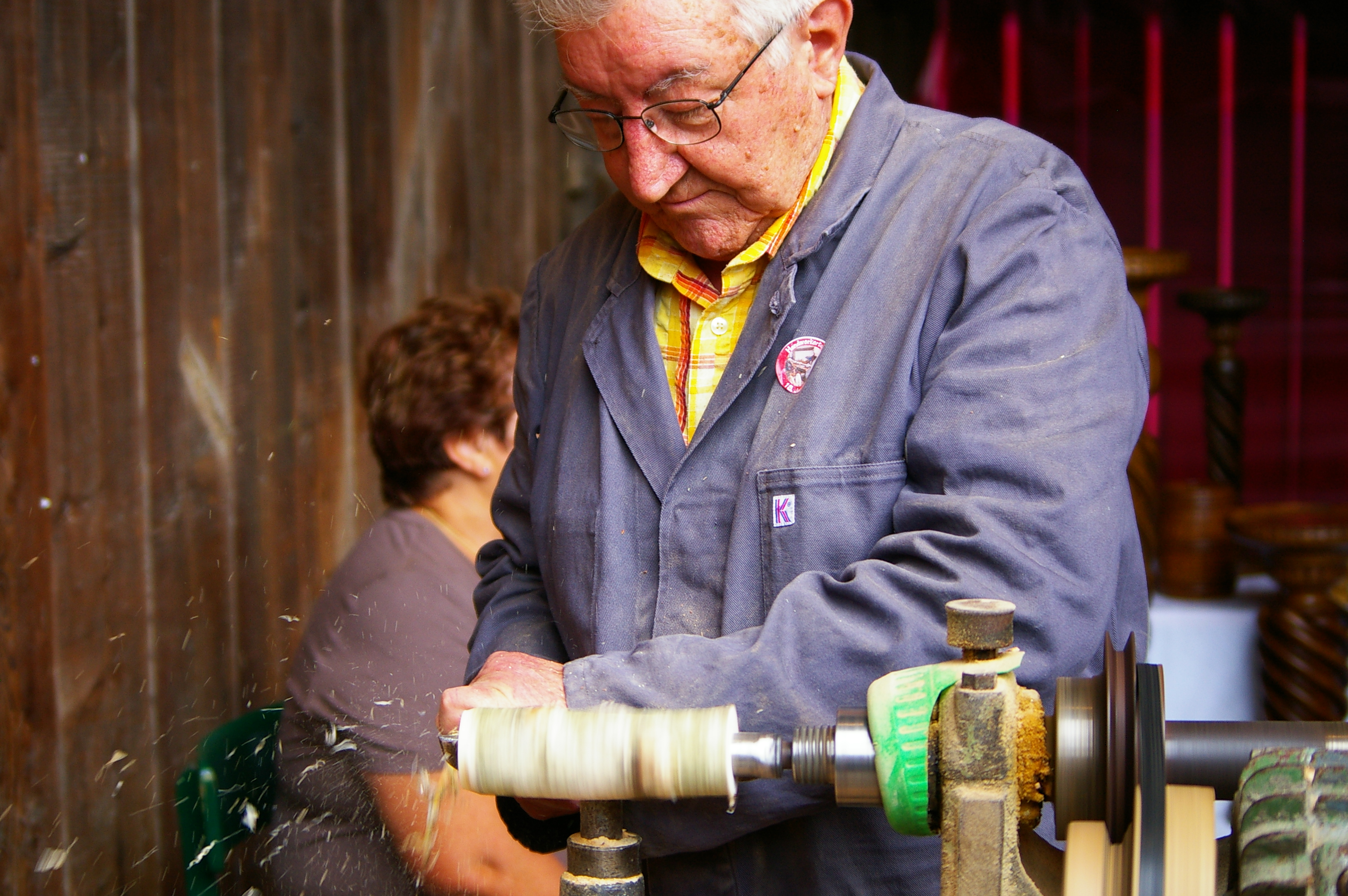 old craft